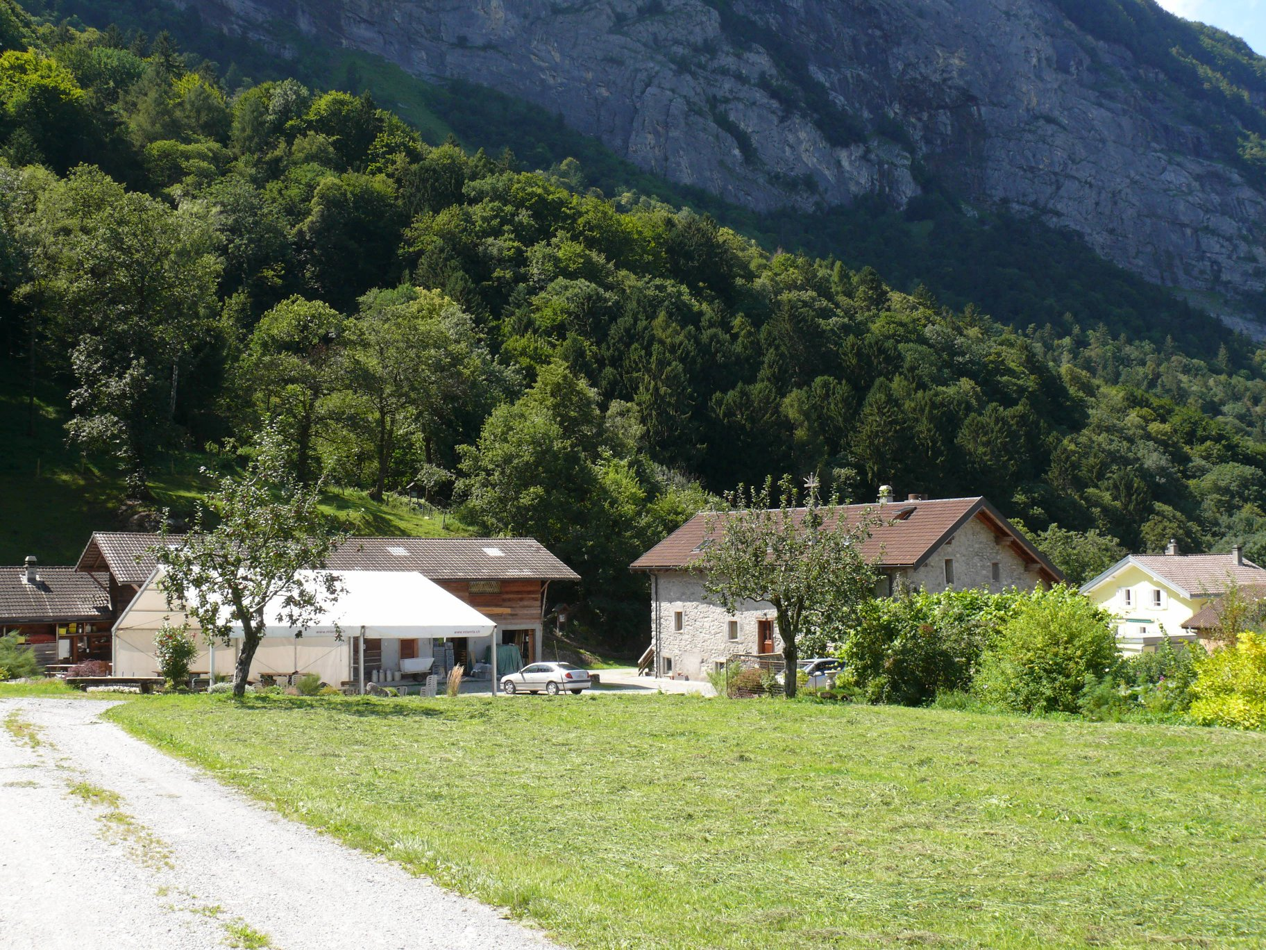 The house of fraternity Eucharistein at Epinassey (Valais, Switzerland).